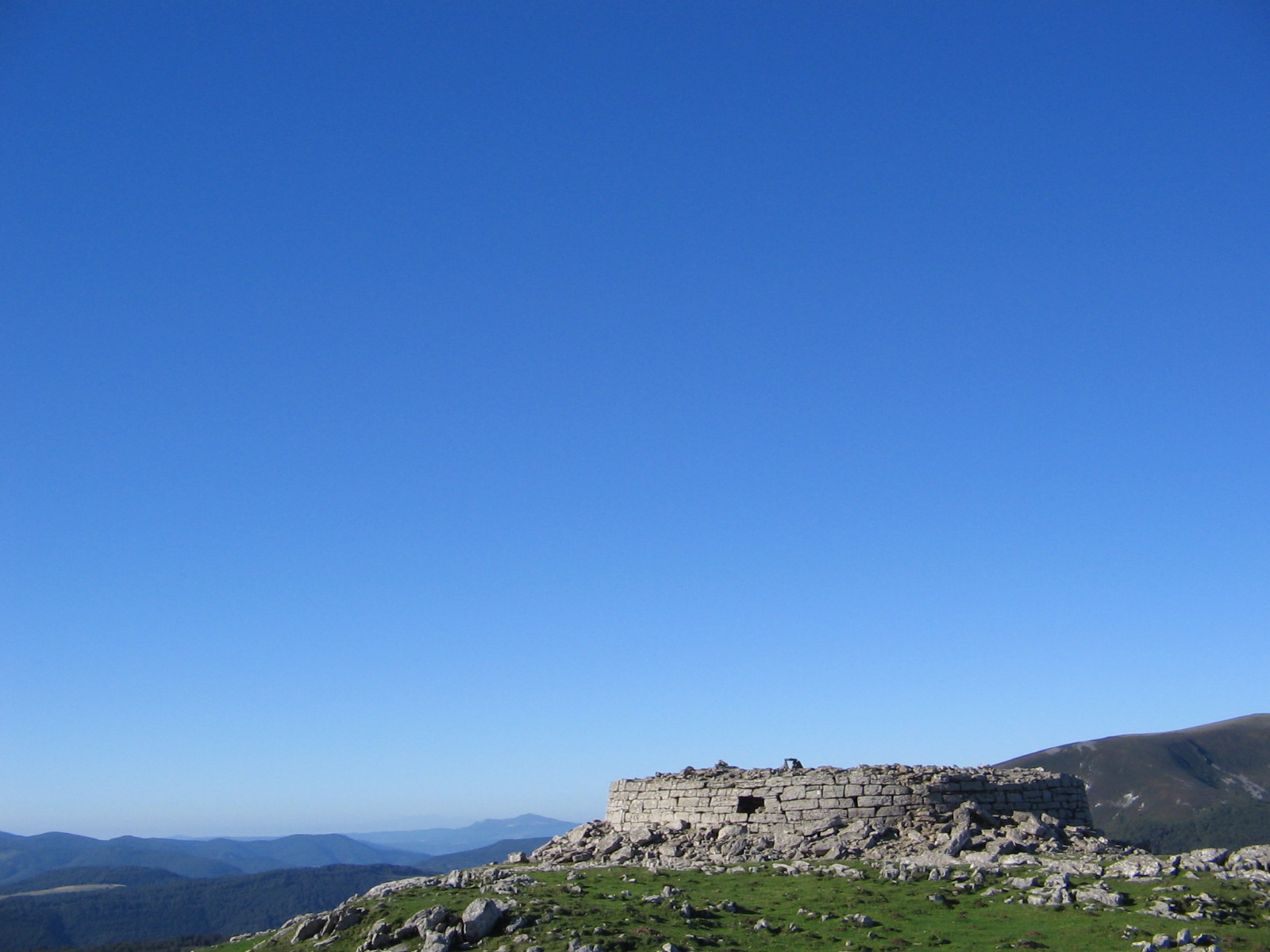 View to the south of the remains of the Tower of Urkulu in the Basque Pyrenees